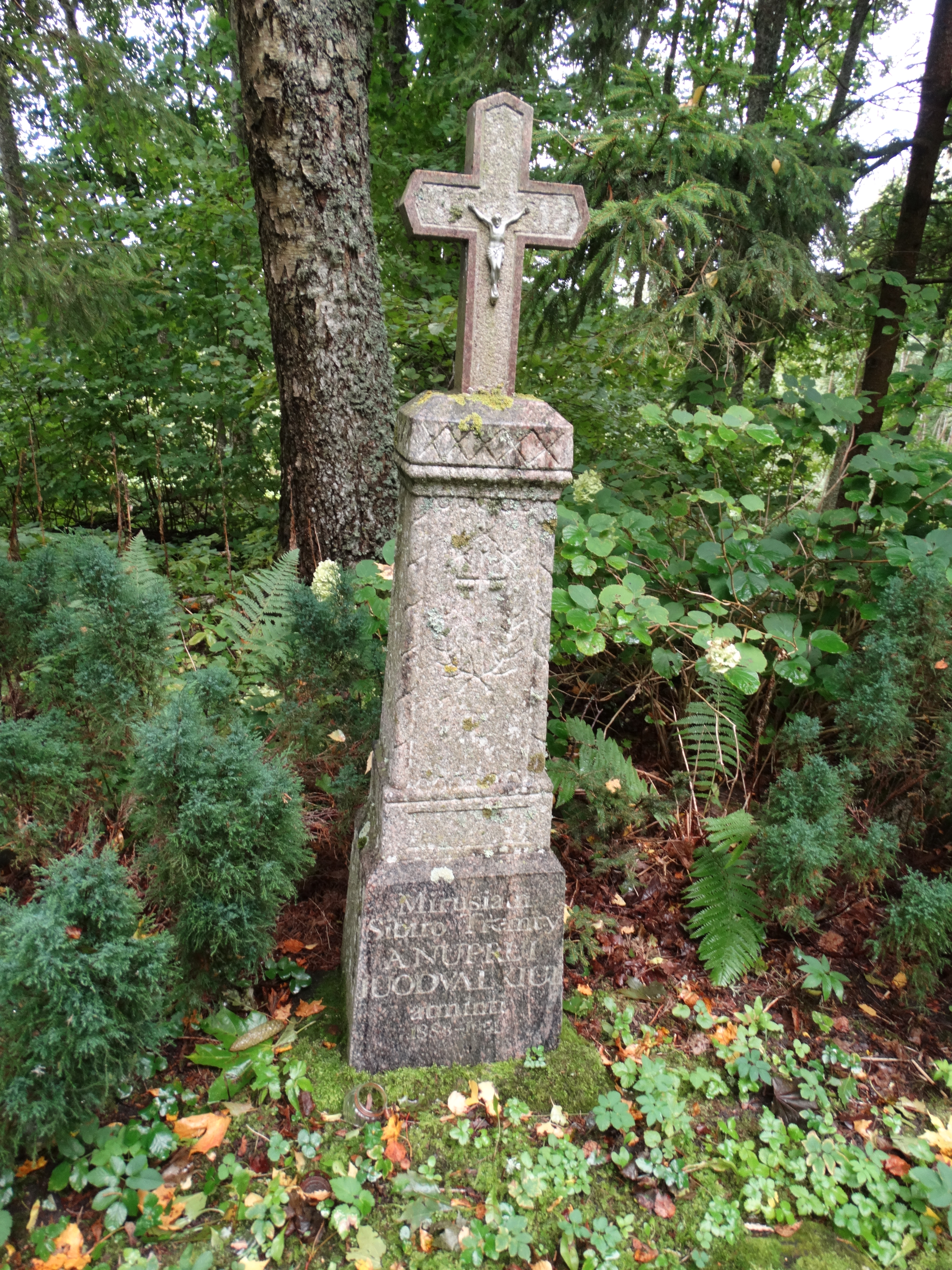 Grave, Sūngailiškis, Utena district, Lithuania